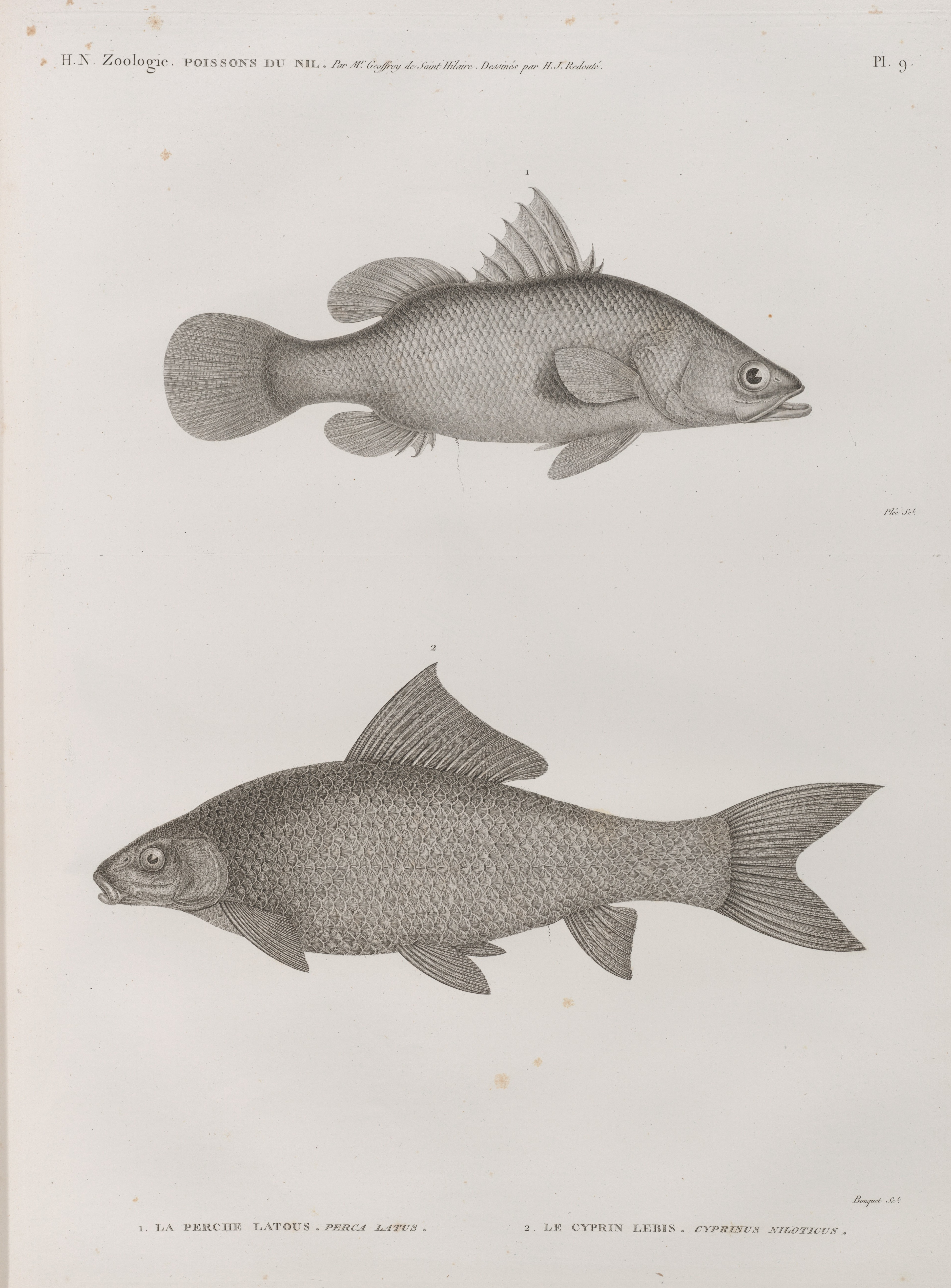 Zoologie. Poissons du Nil. 1. La Perche latous (Perca latus); 2. Le Cyprin lebis (Cyprinus niloticus).